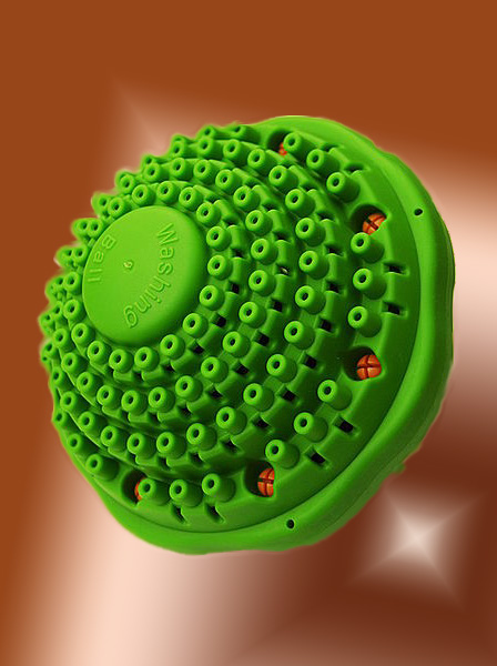 Washball